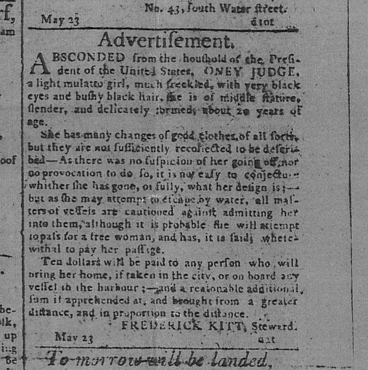 Runaway Advertisement for Oney Judge, enslaved servant in George Washington's presidential household. The Pennsylvania Gazette, Philadelphia, Pennsylvania, May 24, 1796. "Advertisement. ABSCONDED from the houshold [sic] of the President of the United States, ONEY JUDGE, a light mulatto girl, much freckled, with very black eyes and bushy black hair. She is of middle stature, slender, and delicately formed, about 20 years of age. She has many changes of good clothes of all sorts, but they are not sufficiently recollected to be described—As there was no suspicion of her going off, nor no provocation to do so, it is not easy to conjecture whither she has gone, or fully, what her design is;—but as she may attempt to escape by water, all matters of vessels are cautioned against admitting her into them, although it is probable she will attempt to pass as a free woman, and has, it is said, wherewithal to pay her passage. Ten dollars will be paid to any person who will bring her home, if taken in the city, or on board any vessel in the harbour;—and a reasonable additional sum if apprehended at, and brought from a greater distance, and in proportion to the distance. FREDERICK KITT, Steward. May 23 [illegible]."